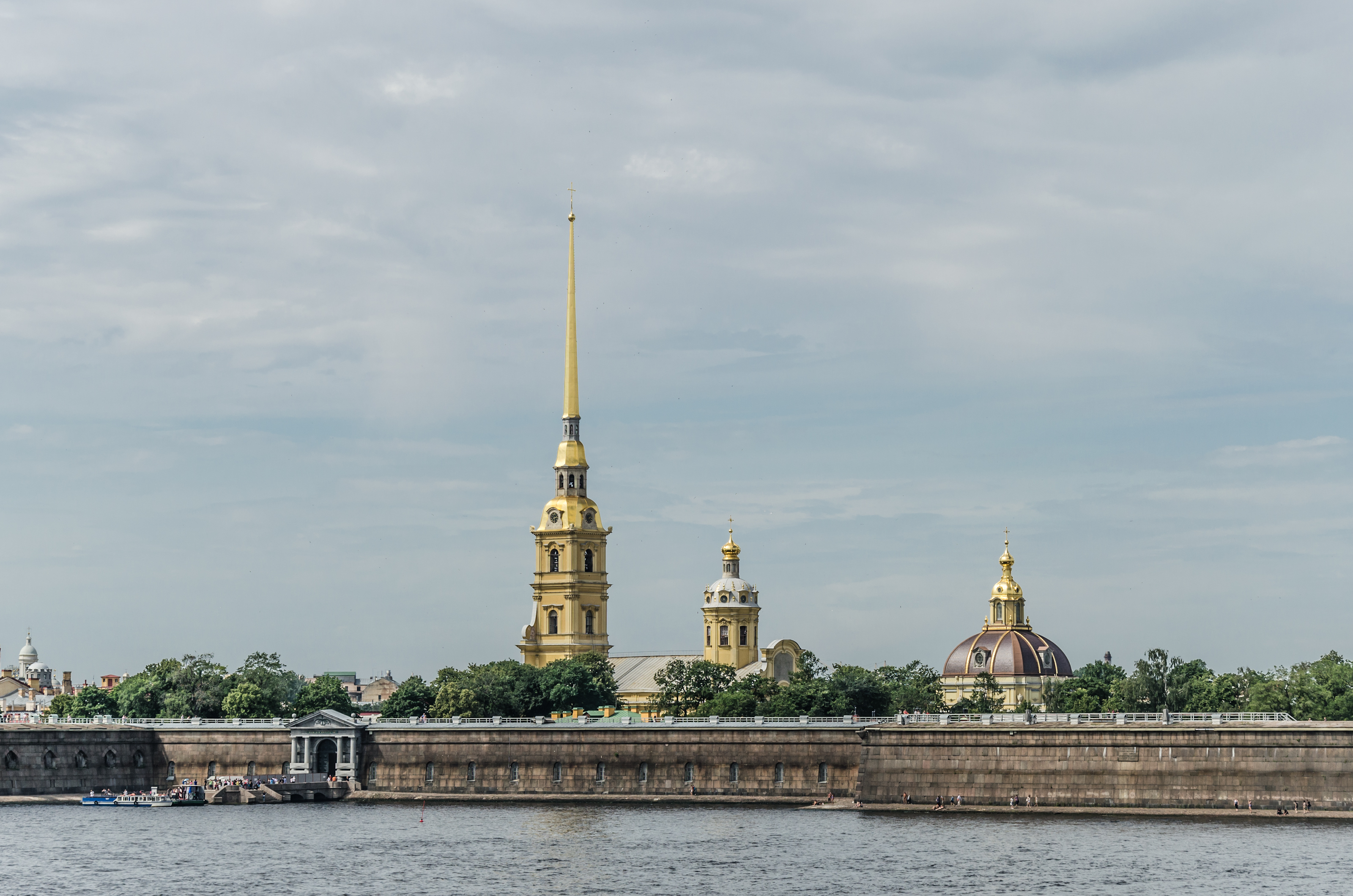 Peter and Paul fortress in Saint Petersburg